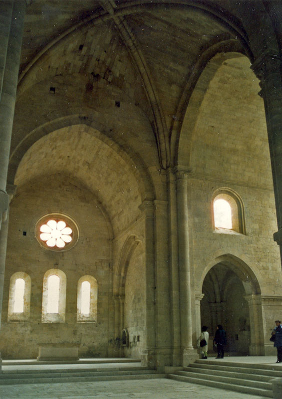 Silvacane Abbey. France